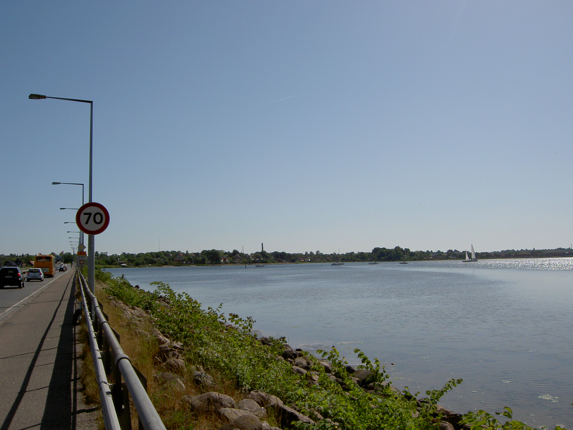 Frederikssund bridge